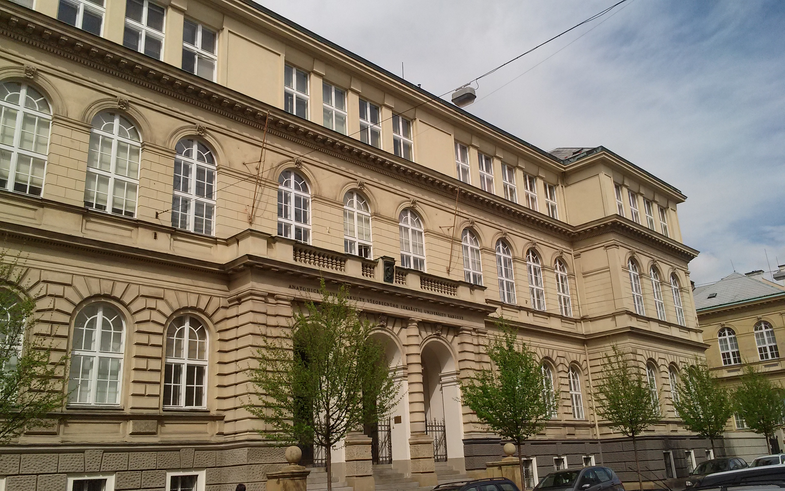 Department of Anatomy, First Faculty of Medicine, Charles University in Prague